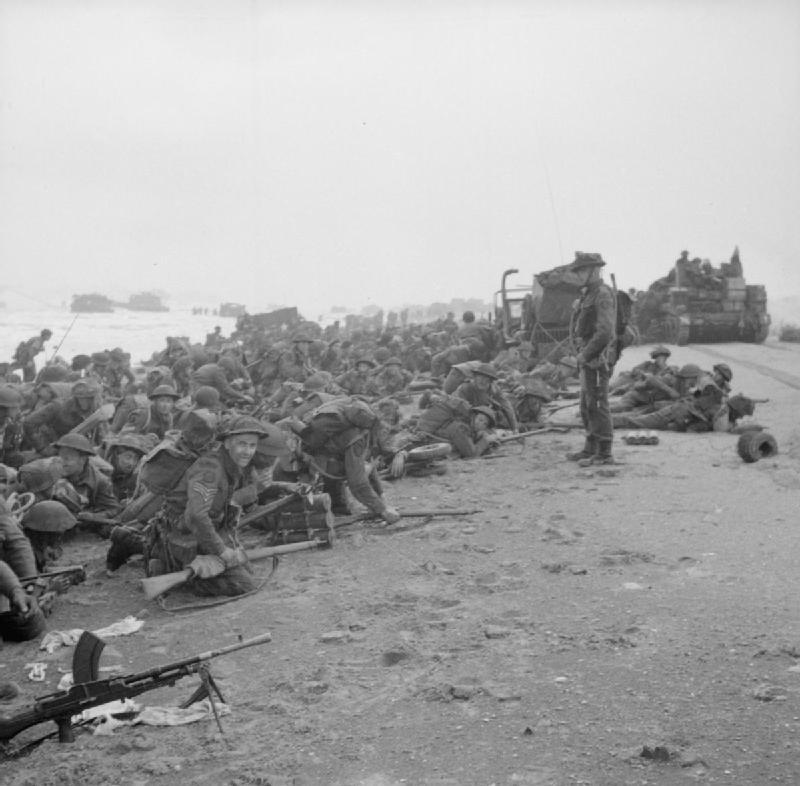 IWM caption : D-DAY - BRITISH FORCES DURING THE INVASION OF NORMANDY, 6TH JUNE 1944. Troops crouch down on Sword Beach as they wait the signal to advance